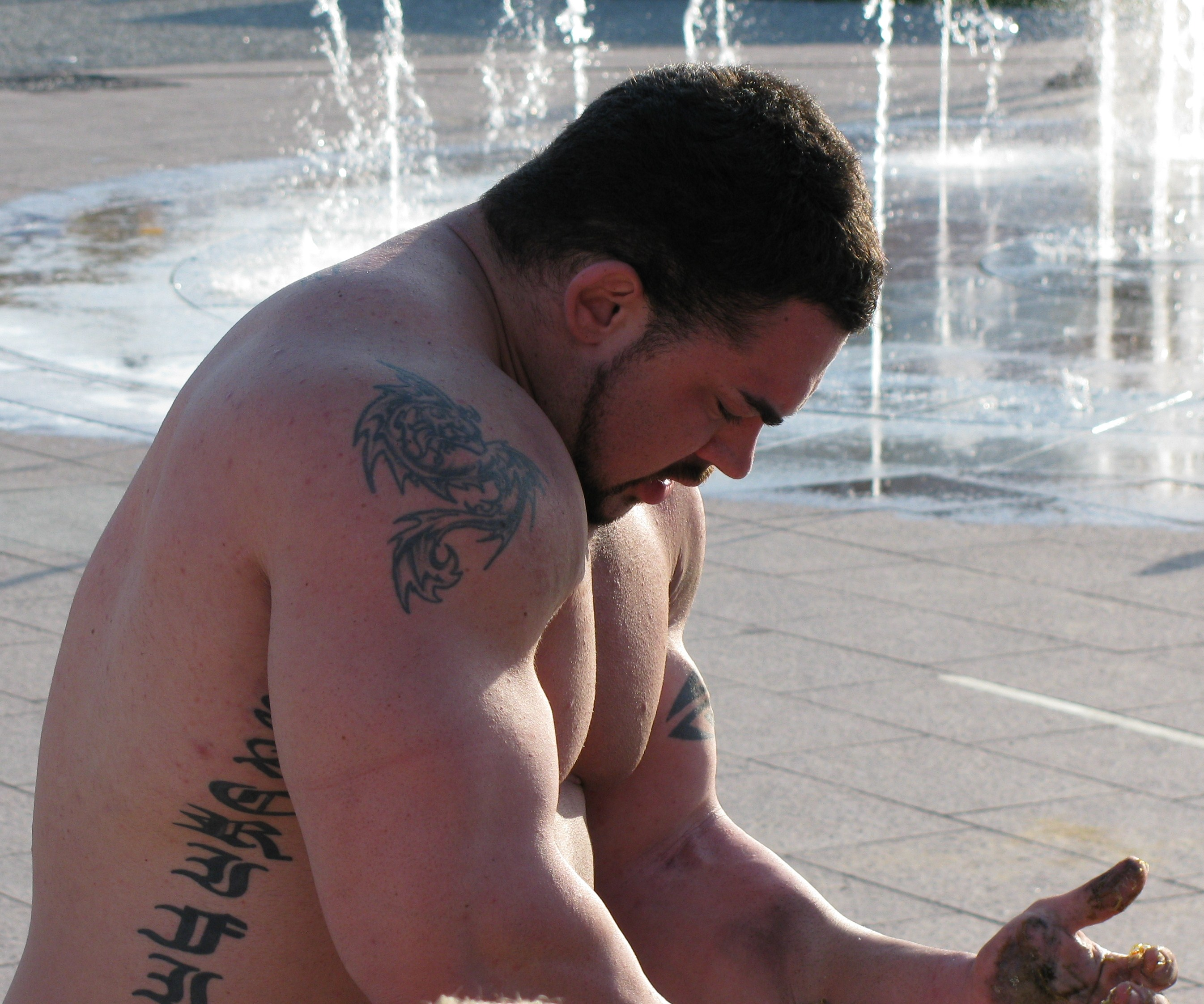 Kevin Nee - a strength athlete from the United States